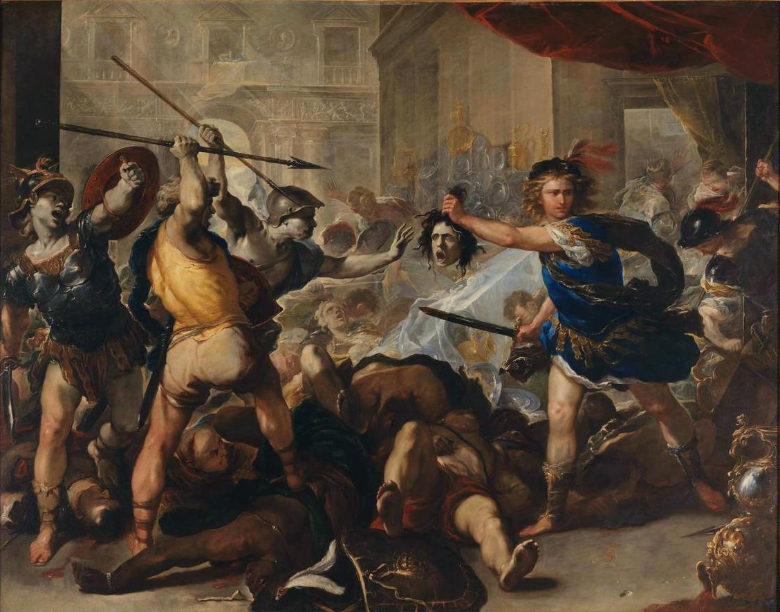 Phineus holds aloft the head of Medusa, which turns "Phineus and his followers to stone". He cannot look for obvious reasons.